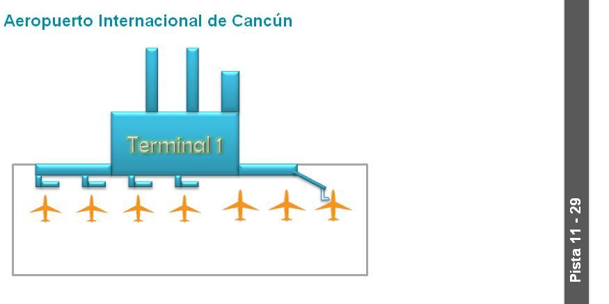 Cancun Terminal 1 Layout.